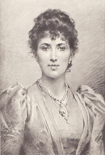 Print of Agnes Marshall (1855-1905)